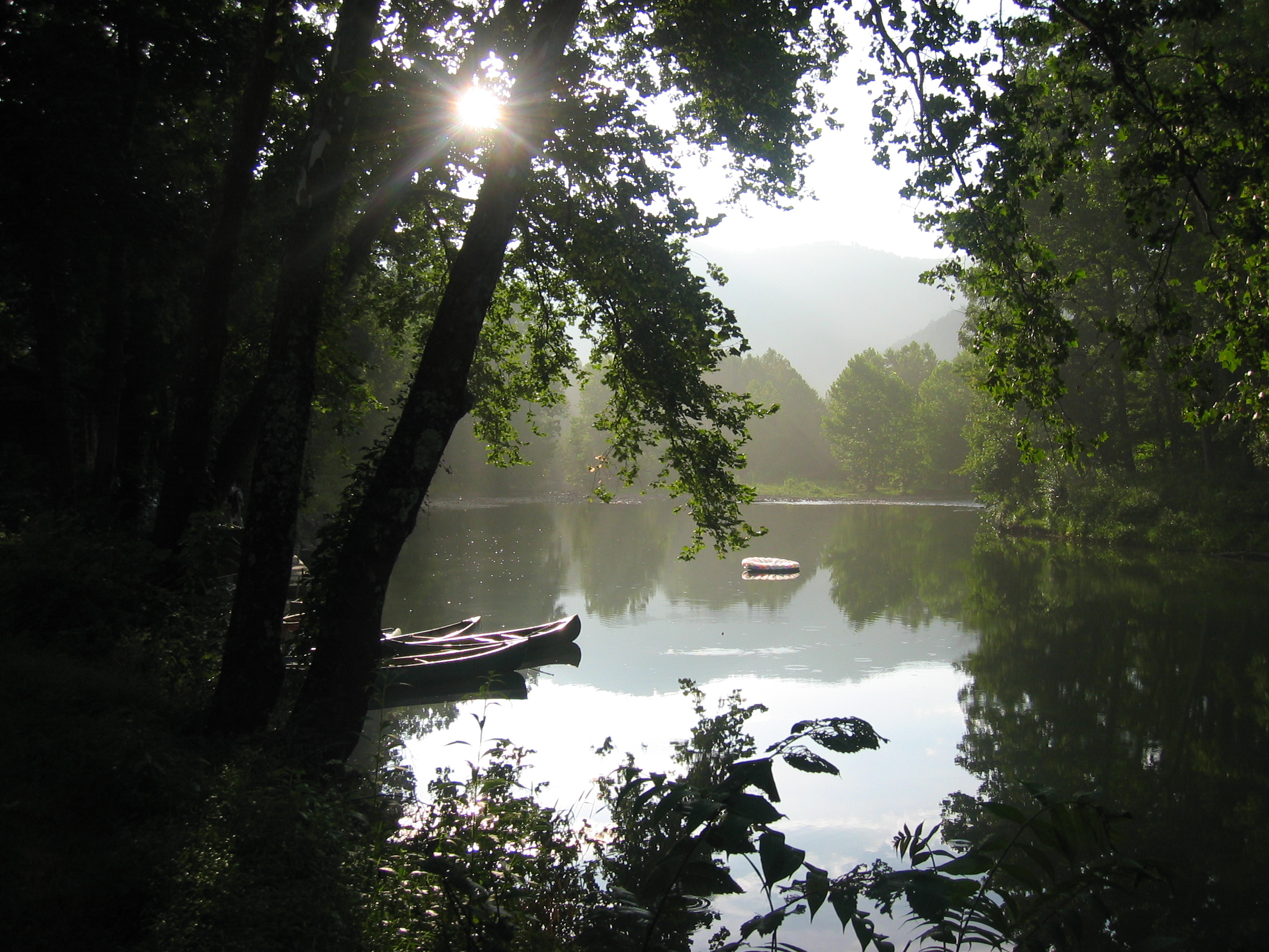 evening sun on the Cowpasture River, Virginia